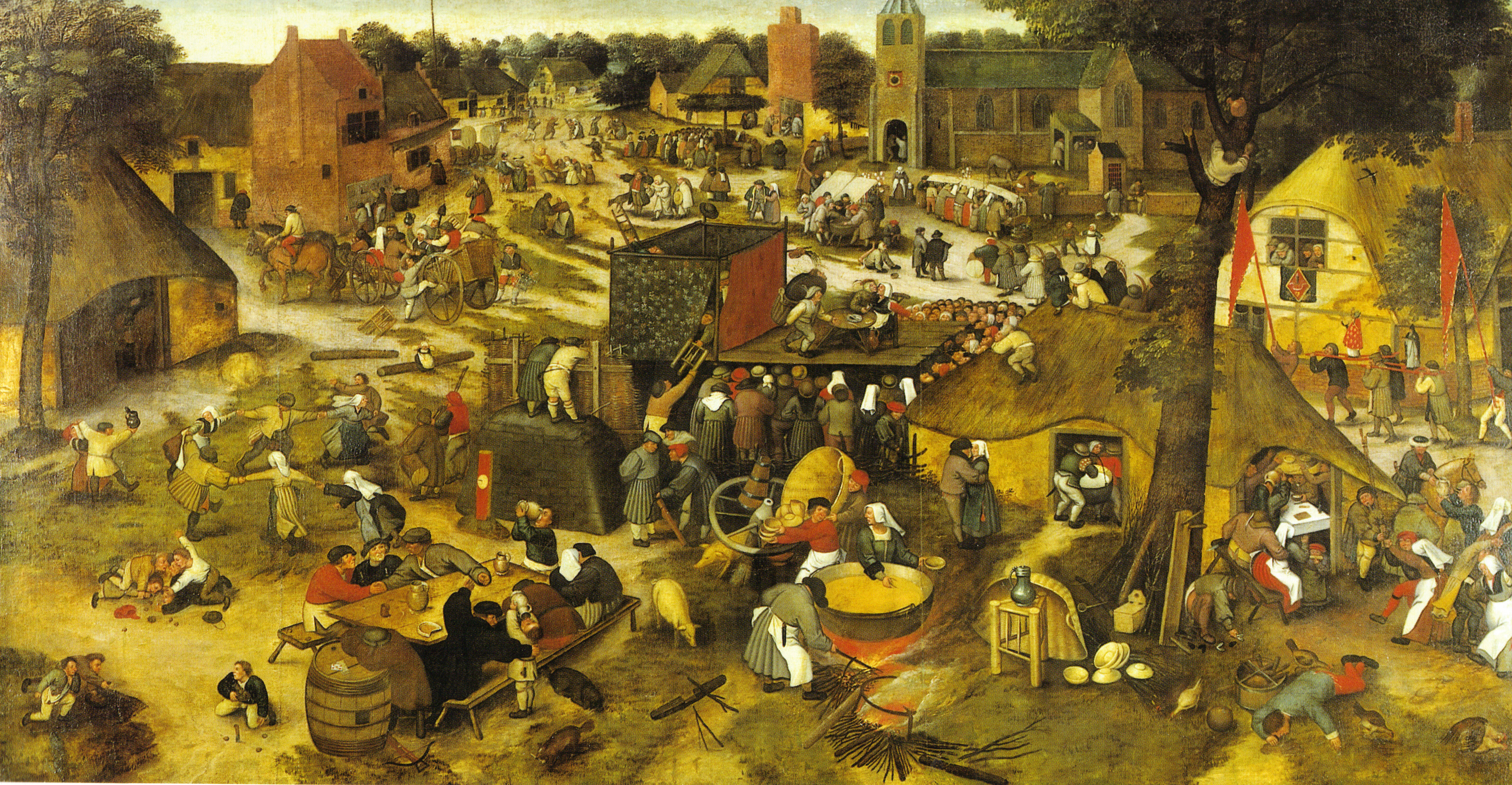 Village feast with theatre performance and procession